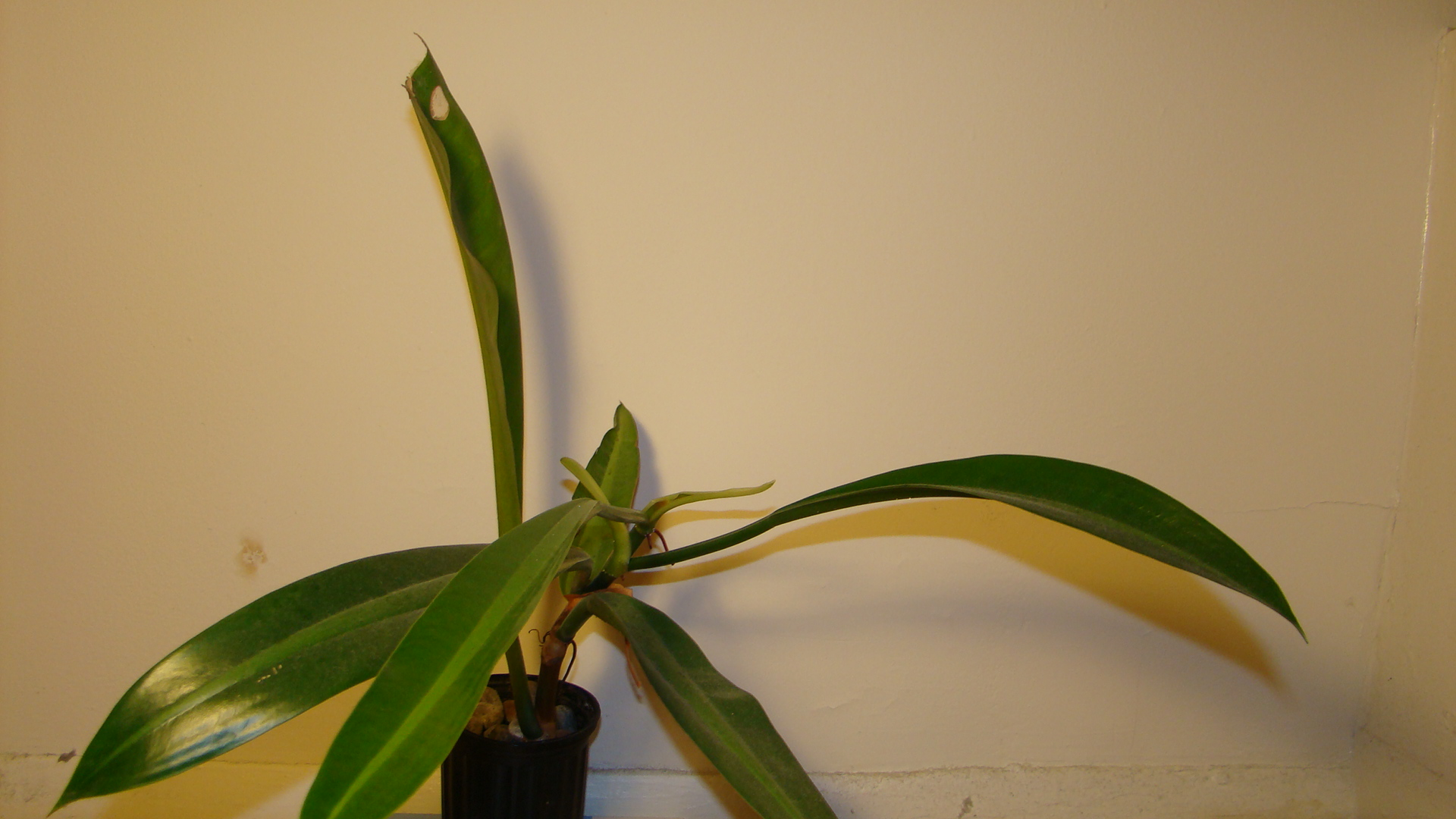 A picture of Philodendron crassinervium.